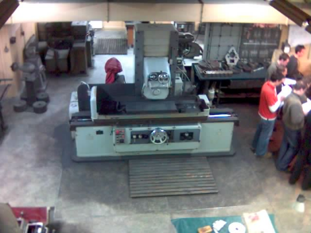 Grinding machine